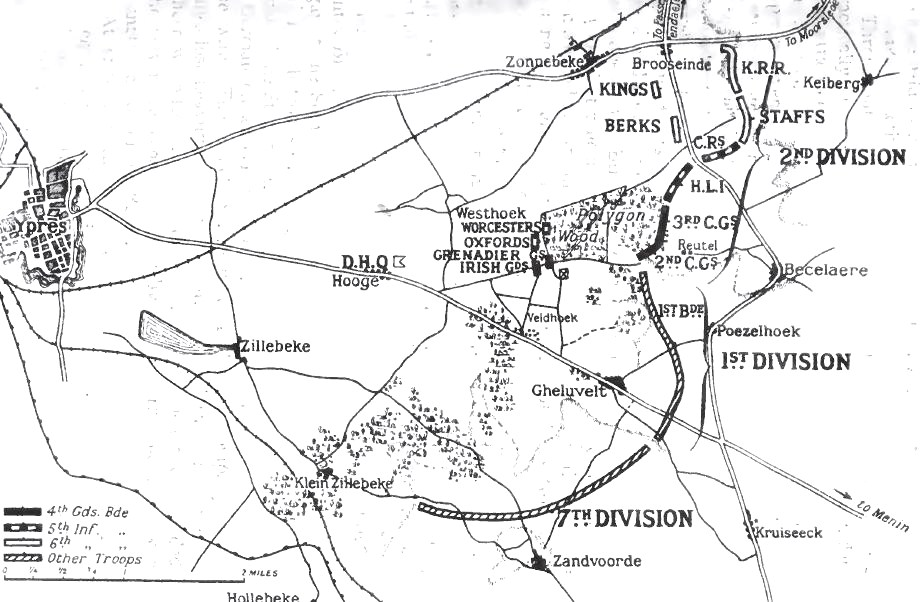 Map Battle of Gheluvelt, 30 October 1914